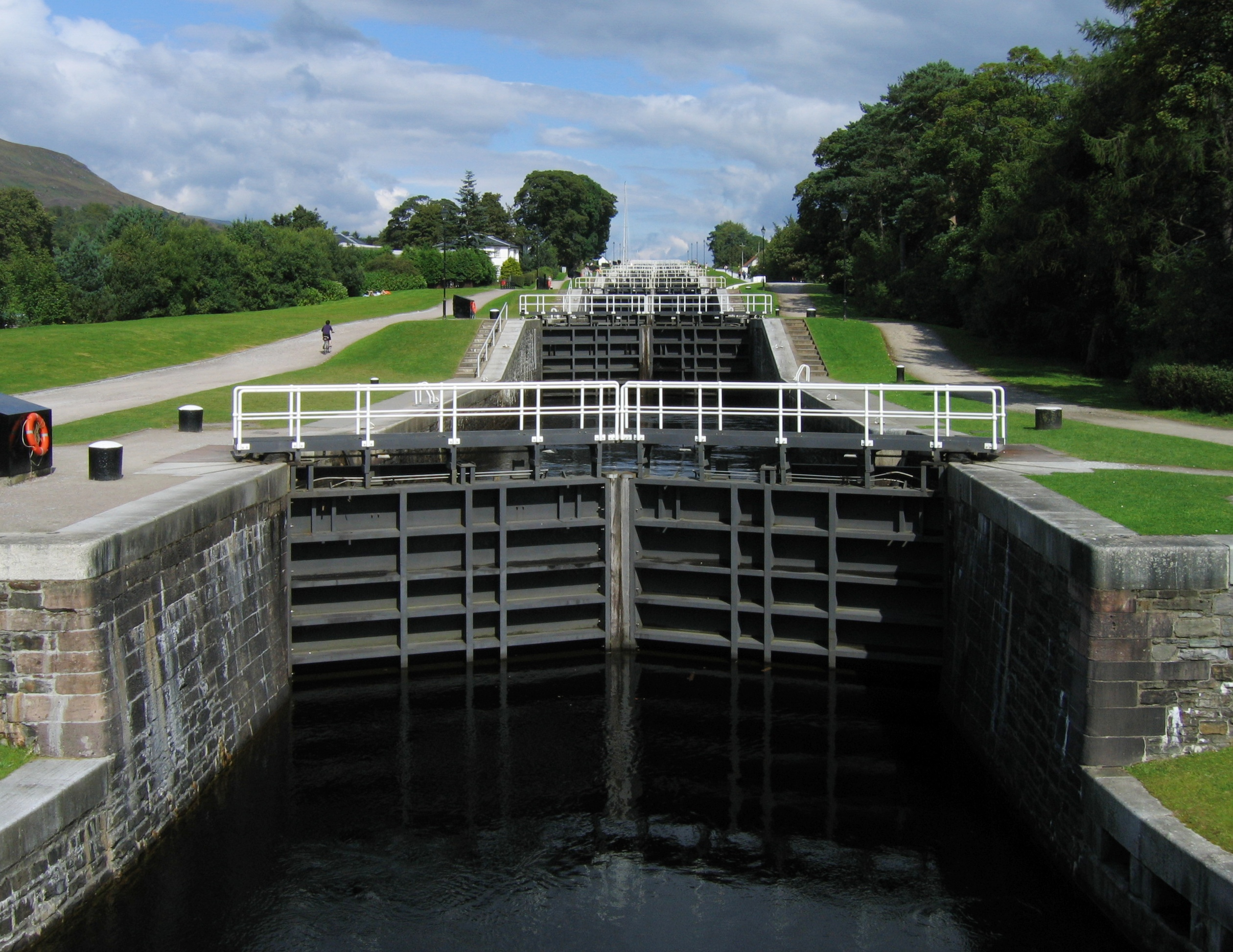 Neptune's Staircase, a staircase lock on the Caledonian Canal in Banavie. Rotated and perspective corrected version.